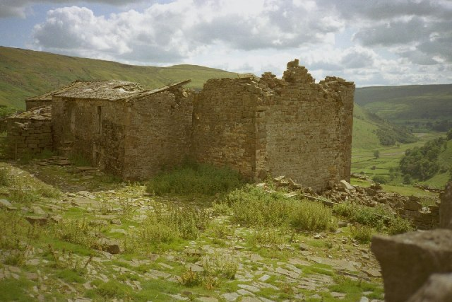 Crackpot Hall, Swaledale.